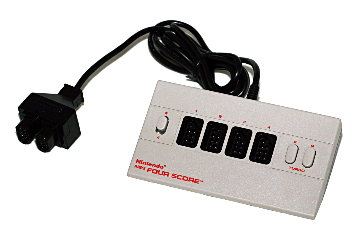 Nintendo NES Four Score module